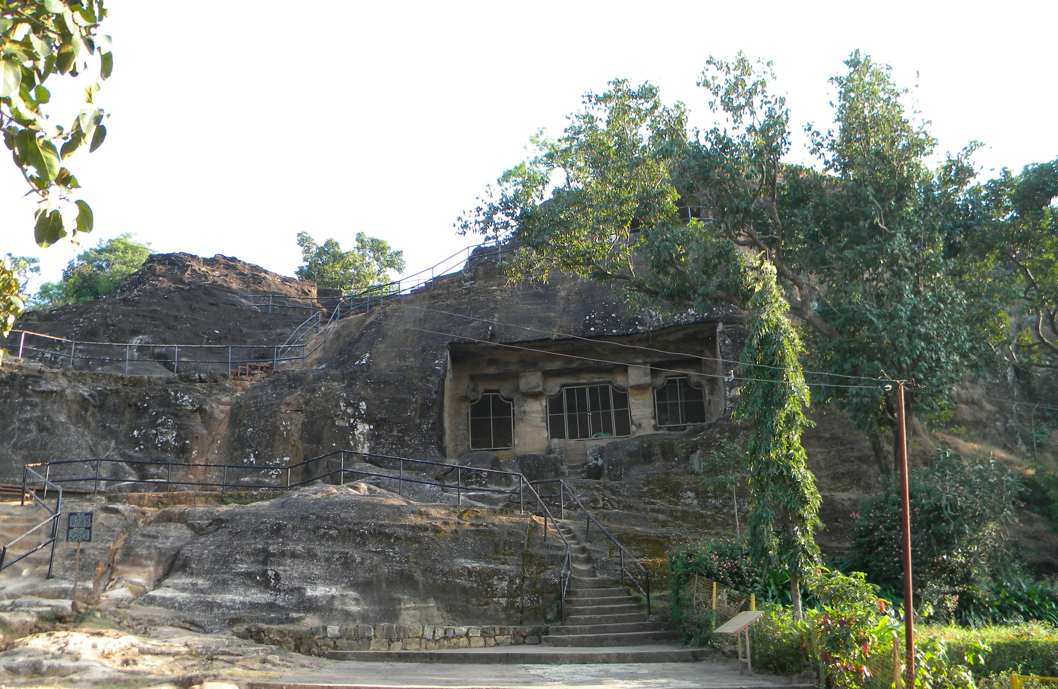 5(pandava) Hinayana Buddhist Caves.Nothing to do with Pandavas(Mahabharata).